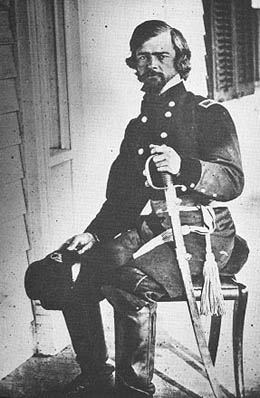 Photo of Issac Stevenson, Governor of the territory of Washington from 1853–1857.